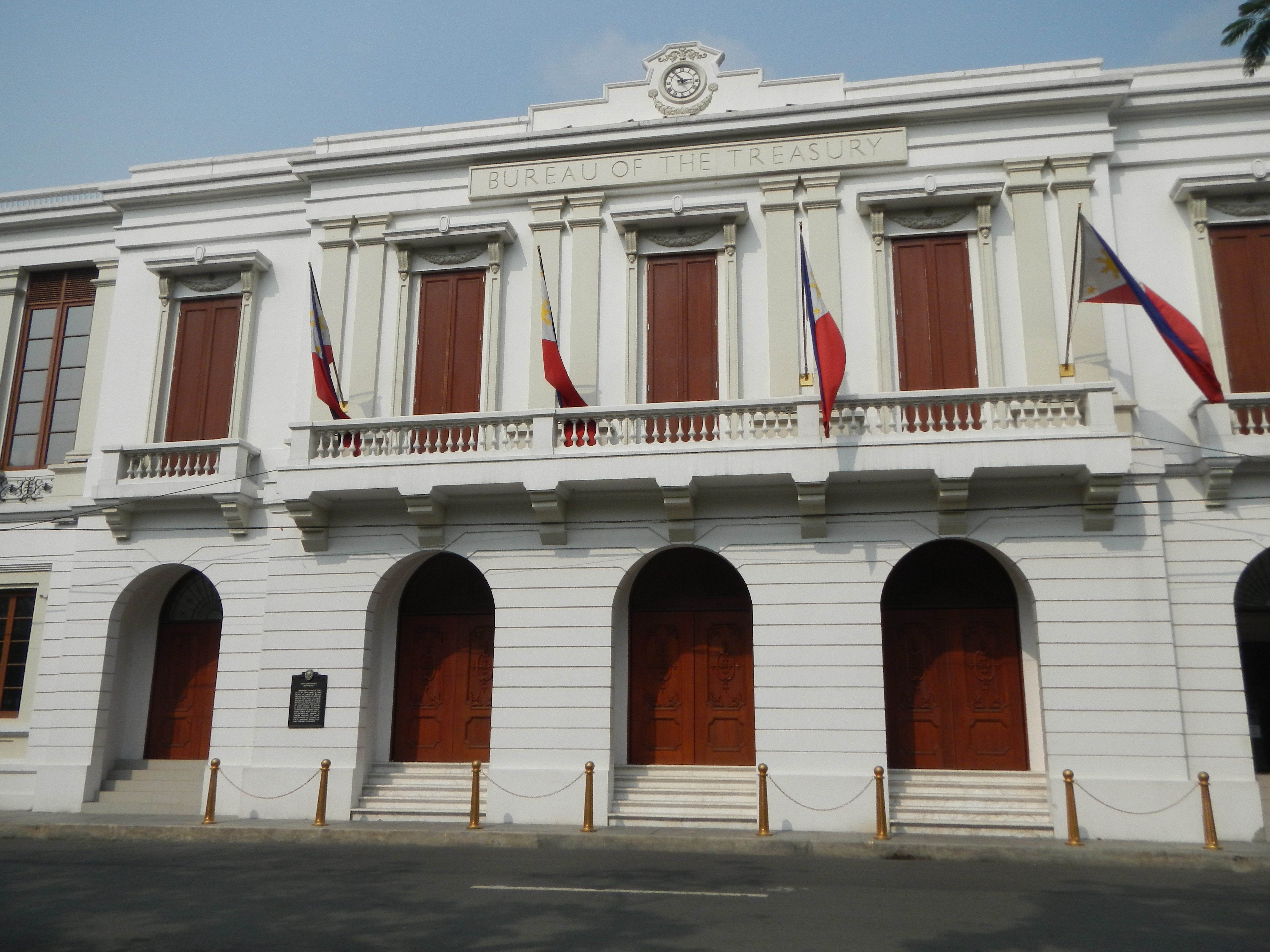 Casa Consistoriales (Ayuntamiento), Intramuros, 1735, now Bureau of Treasury (BTr), Department of Finance (Philippines) in front of the Plaza de Roma, Intramuros with King Charles IV, monument, statue, beside the Manila Cathedral near the Puerta Postigo del Palacio or Pintong Postigo, 1662.